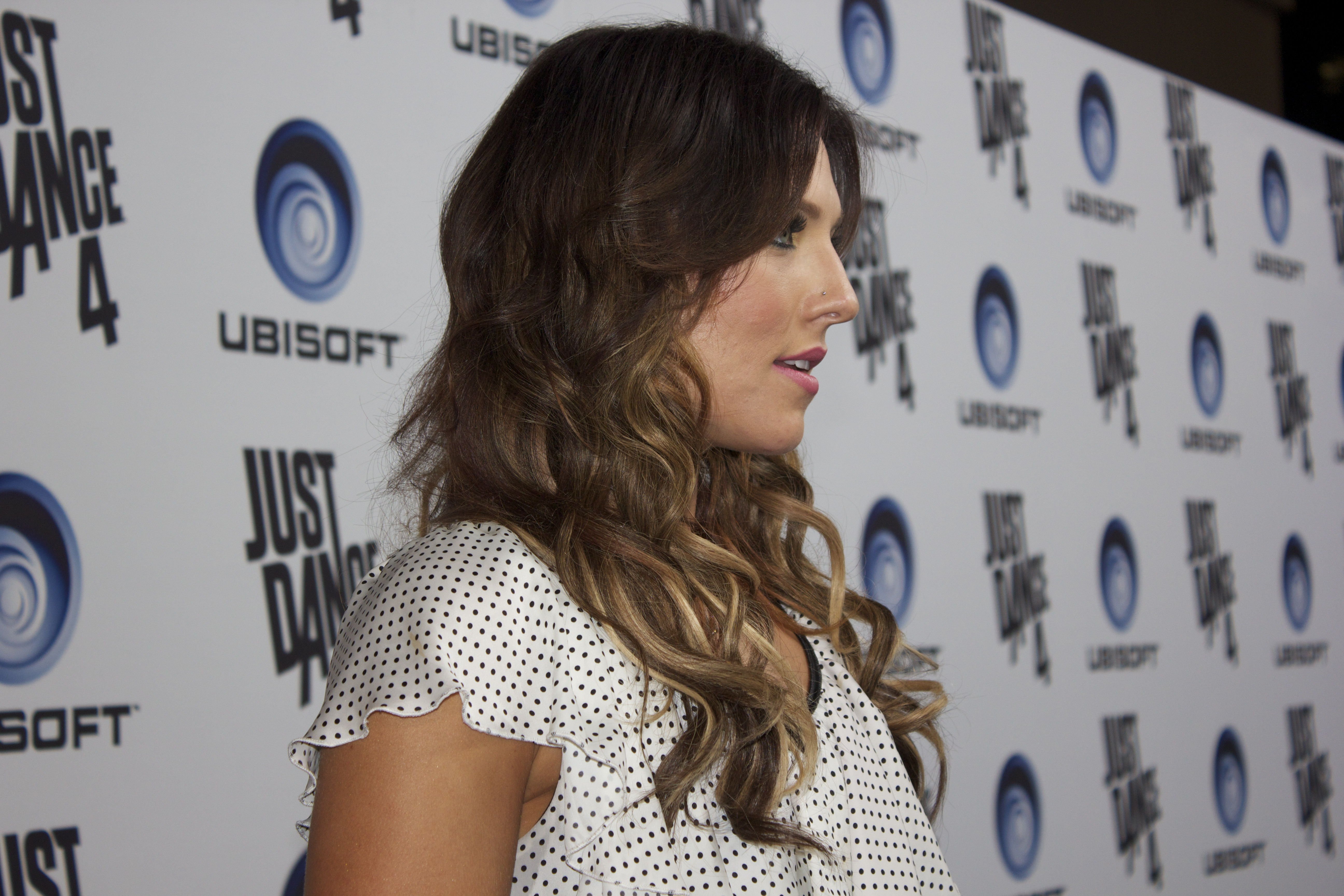 Sharna Burgess at the release of "Just Dance 4." Taken on October 2, 2012